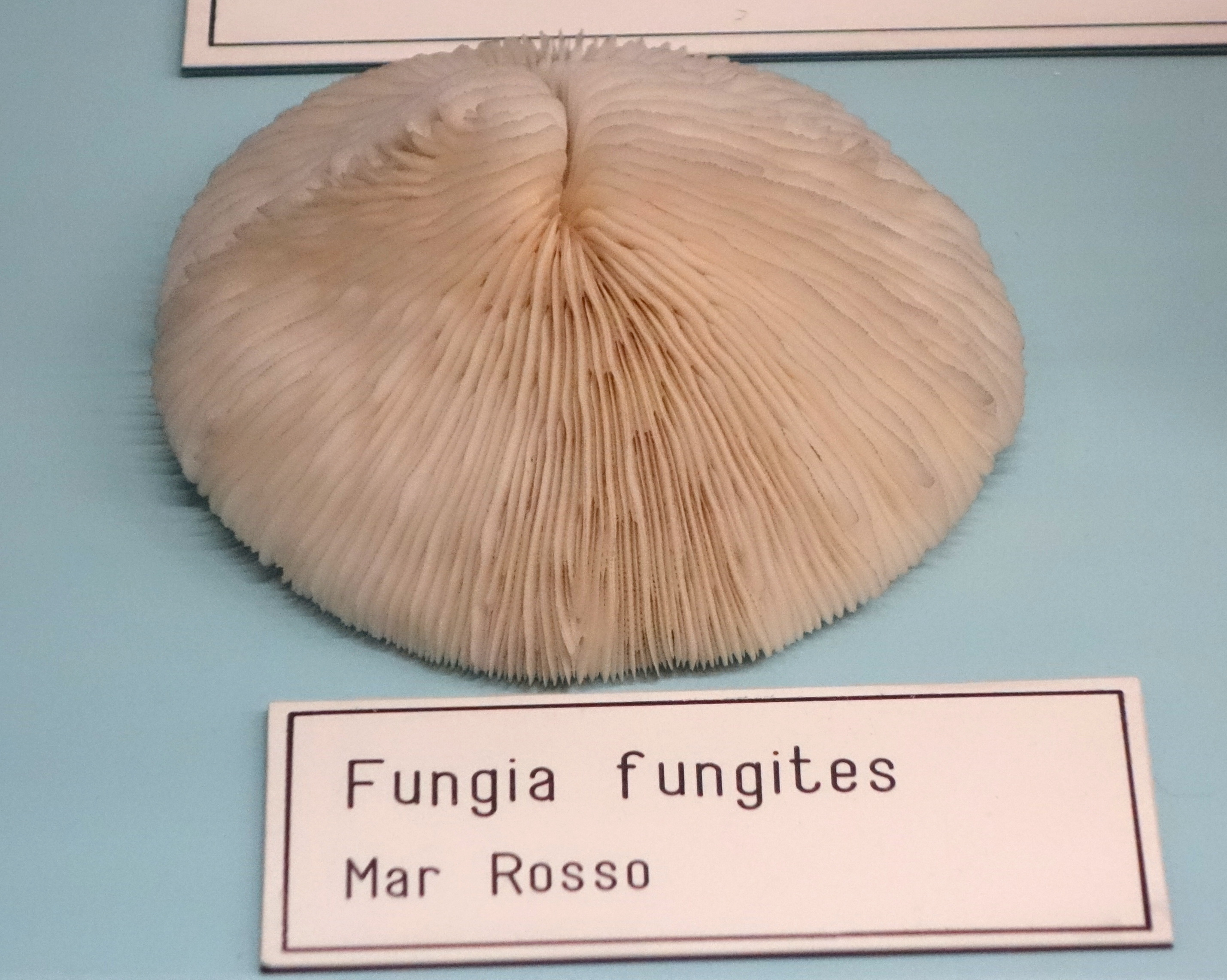 Exhibit in the Museo Civico di Storia Naturale di Genova, Via Brigata Liguria, 9, 16121, Genoa, Italy.